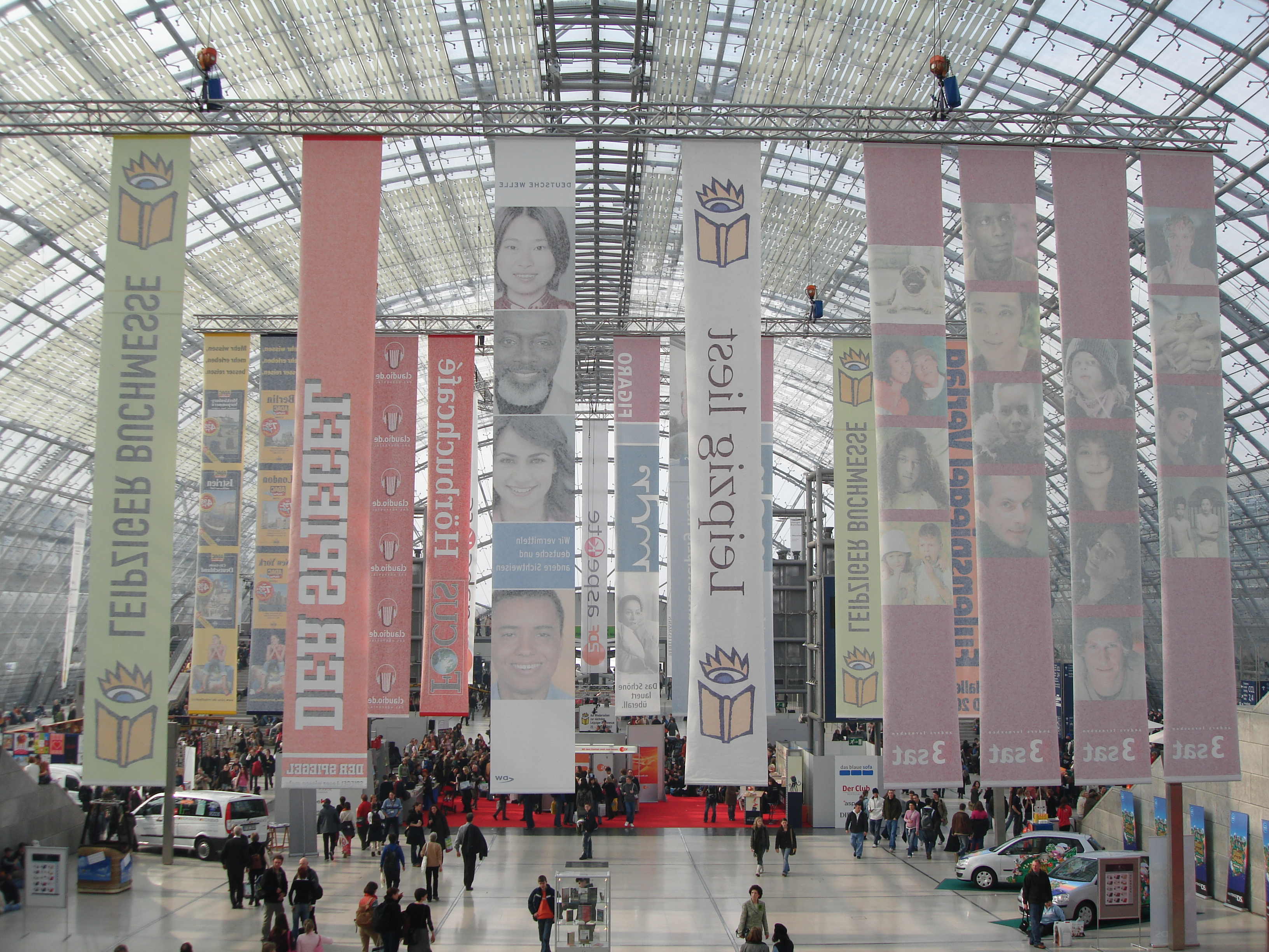 Leipzig book fair 2006